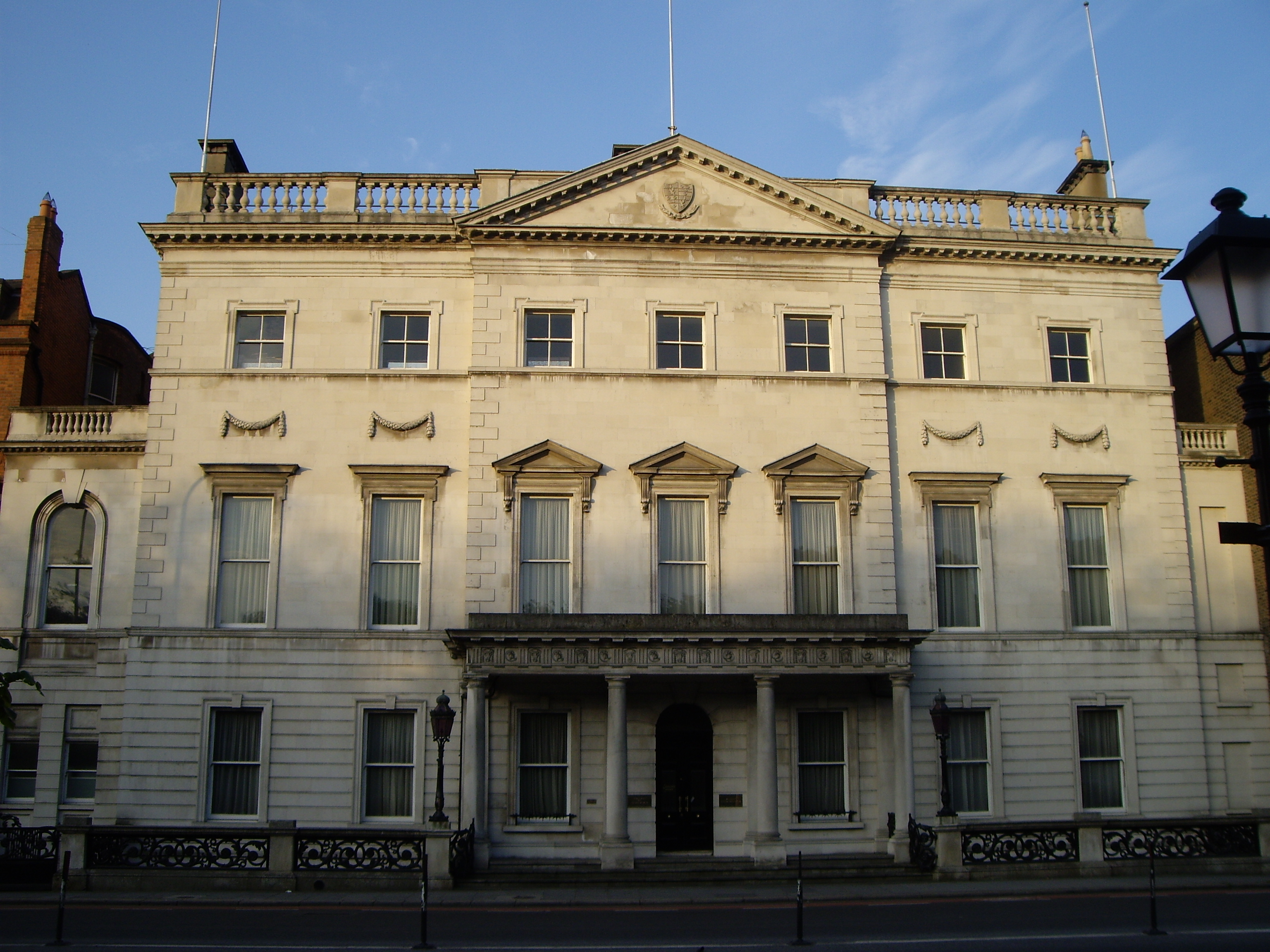 Iveagh House, 80-81 St Stephen's Green [South], Dublin 2: Headquarters of the Irish Department of Foreign Affairs